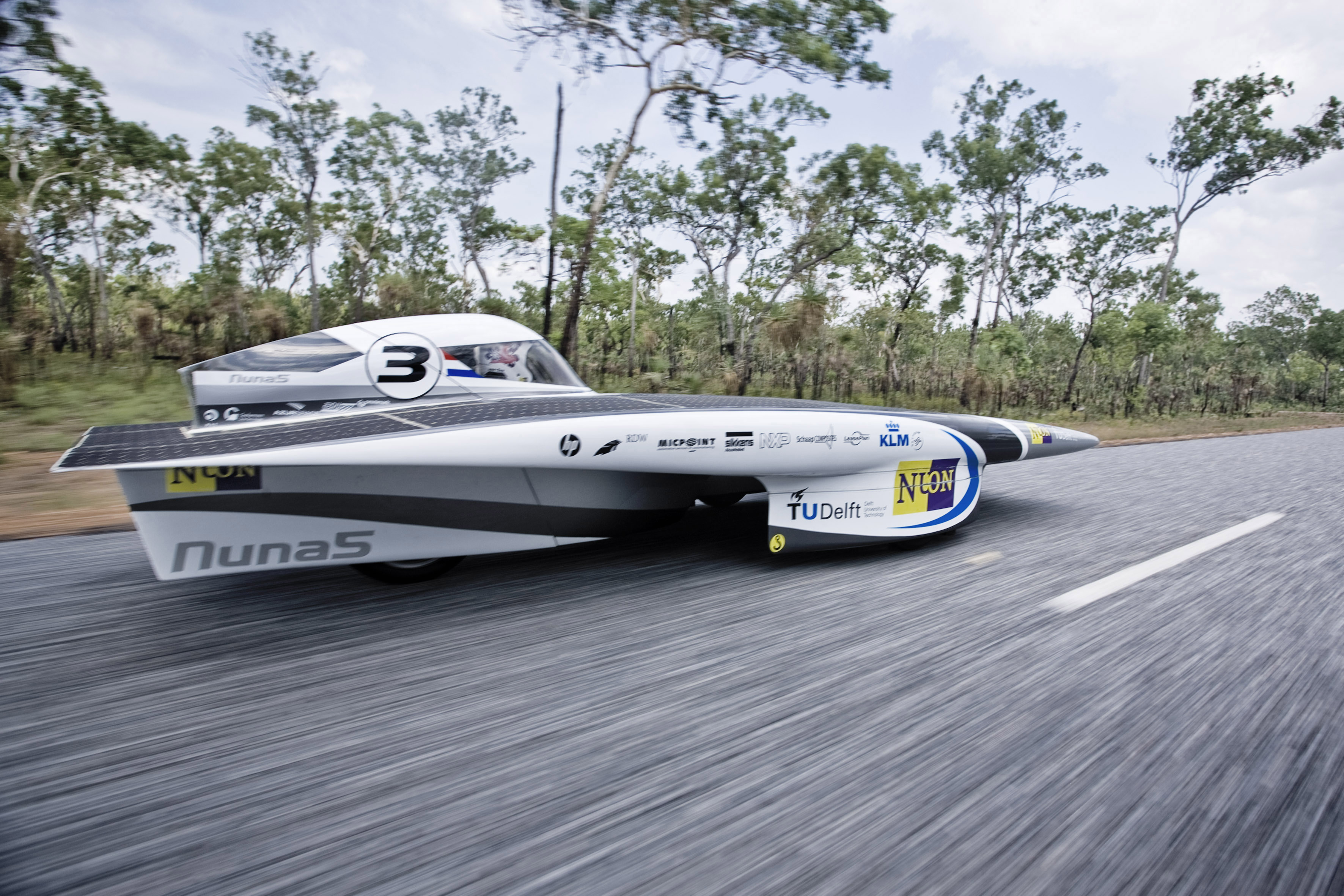 The Nuna 5 testing near Darwin, Australia